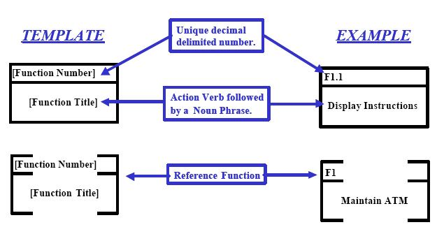 3 Function Symbol